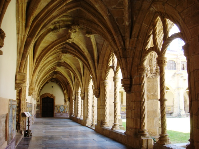 "Cloister of Silence", in the Santa Cruz Monastery, Coimbra (city).